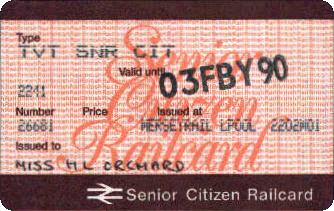 Senior Citizen Railcard issued at the Merseyrail office, Harrington Dock, Liverpool (used for the processing of postal renewals). Scanned from my own collection.